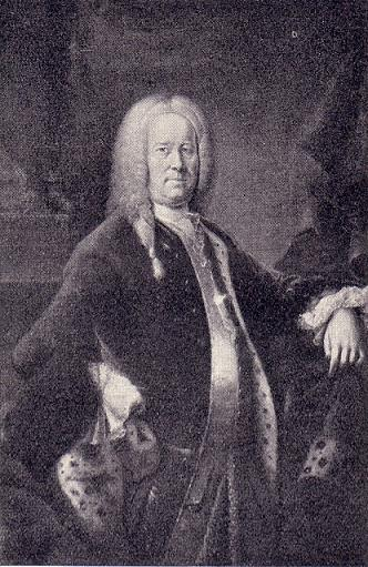 Herman Leopoldus Løvenskiold (1677-1750), Dano-Norwegian estate owner